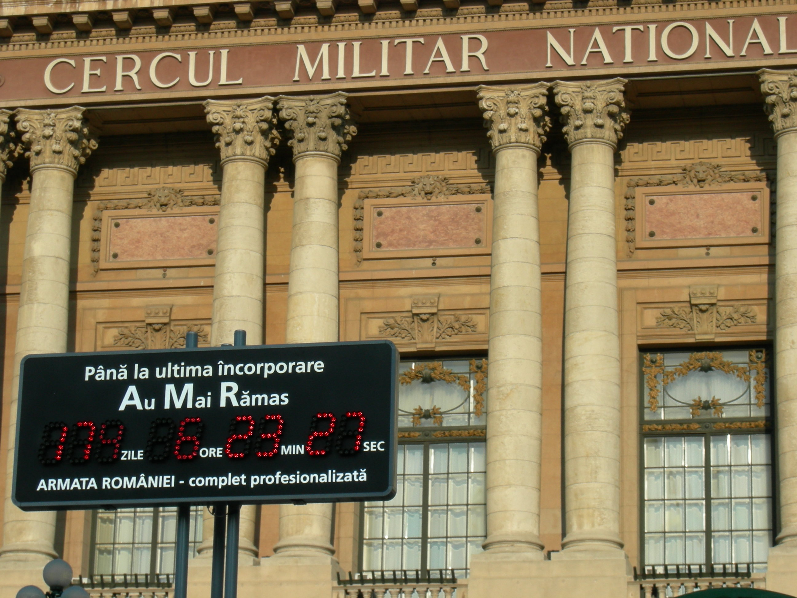 Cercul Militar Naţional, Calea Victoriei, Bucharest, Romania. The sign in front is a count down to the "complete professionalization" of the Romanian Army.